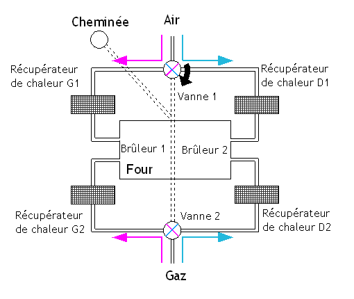 Working sketch of the Siemens furnace.